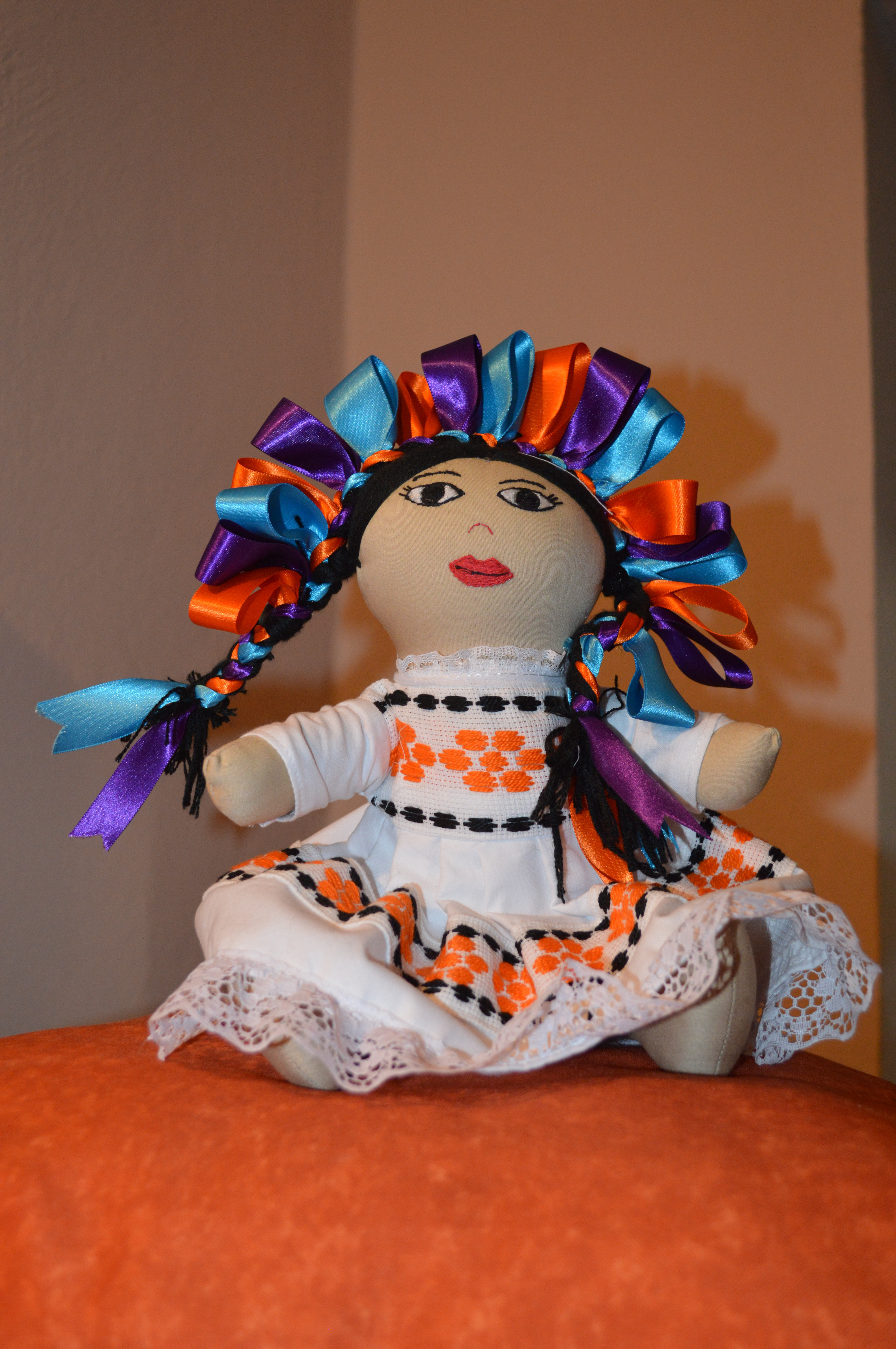 Hand stitched Otomi rag doll (Maria) from Amealco, Queretaro